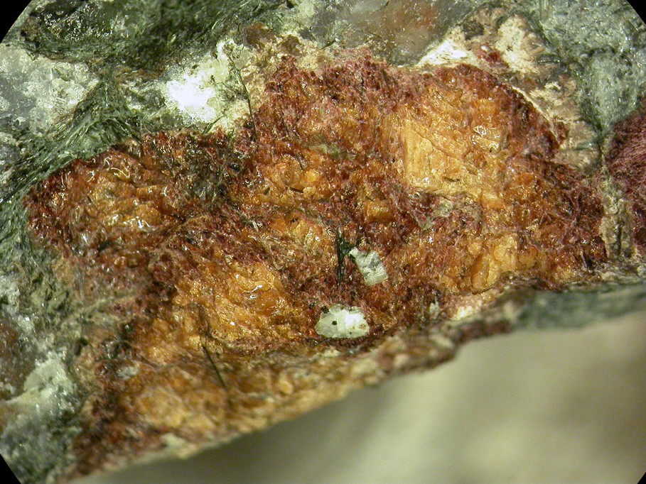 Ikranite, Aegirine (FOV is ~ 13 x 11 mm) Locality: Karnasurt Mt, Lovozero Massif, Kola Peninsula, Murmanskaja Oblast, Northern Region, Russia Original description: Brownish-yellow Ikranite grain in fibrous Aegirine-III aggregate from axial zone of nepheline-syenite pegmatite. The grain contain brownish-red to violet-red zones of alteration, composed by apparently new specie - oxi-variety of Ikranite. Holotype specimen - part of the single known boulder, find on dumps of Karnasurt mine. Collected by Nikita V. Chukanov. Pavel M. Kartashov collection and specimen.